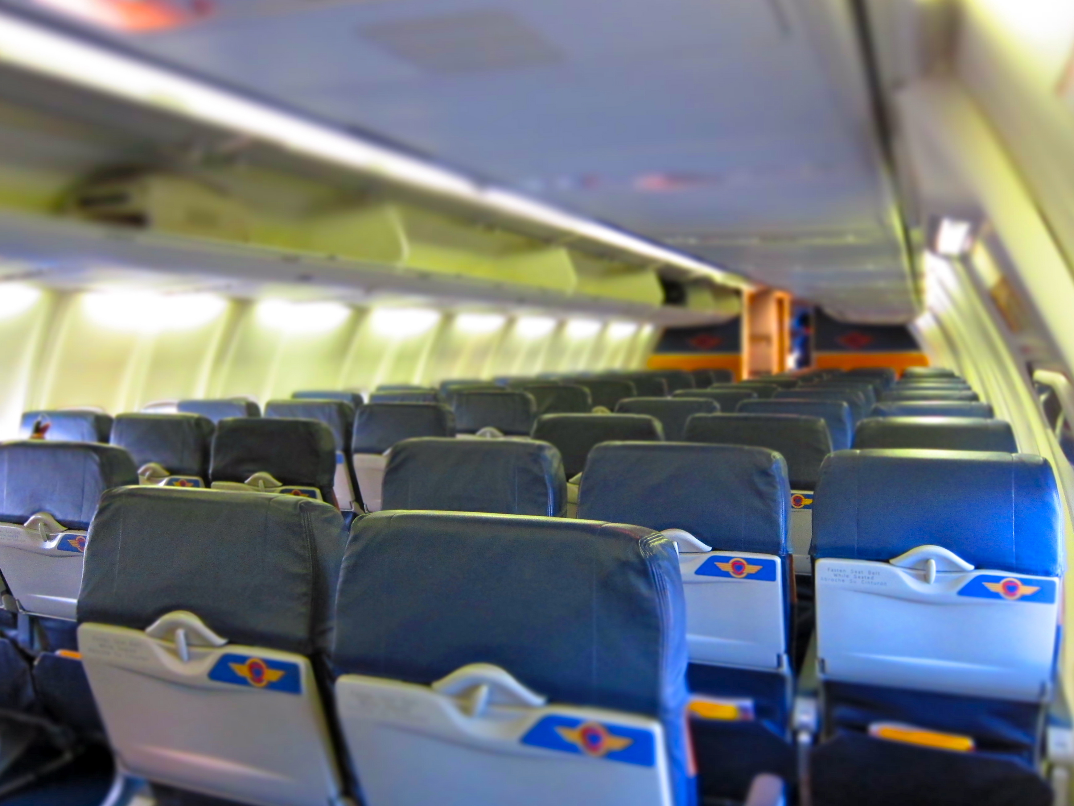 On board Southwest Airlines aircraft empty interior